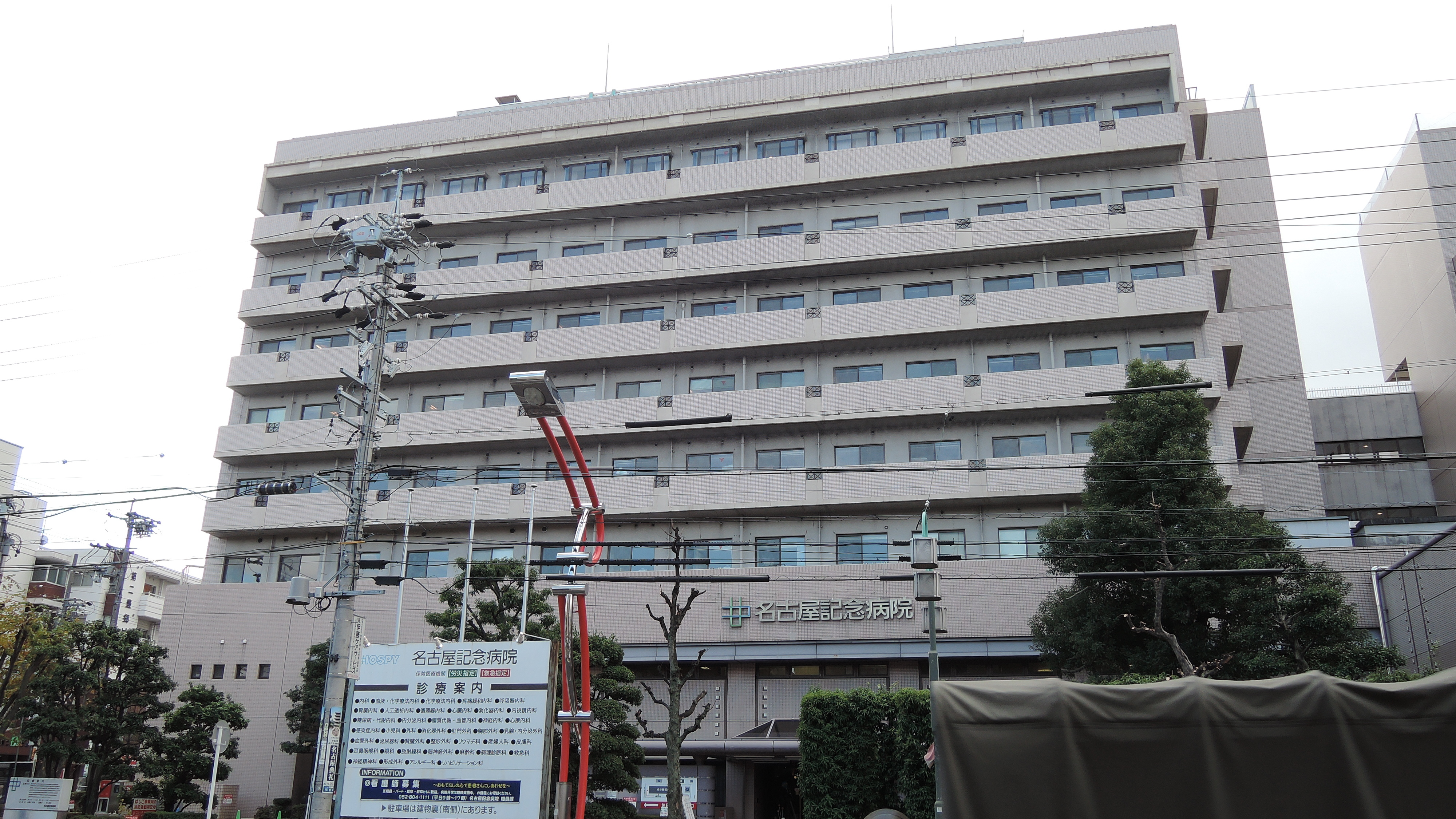 Nagoya Memorial Hospital,Aichi prefecture, Japan